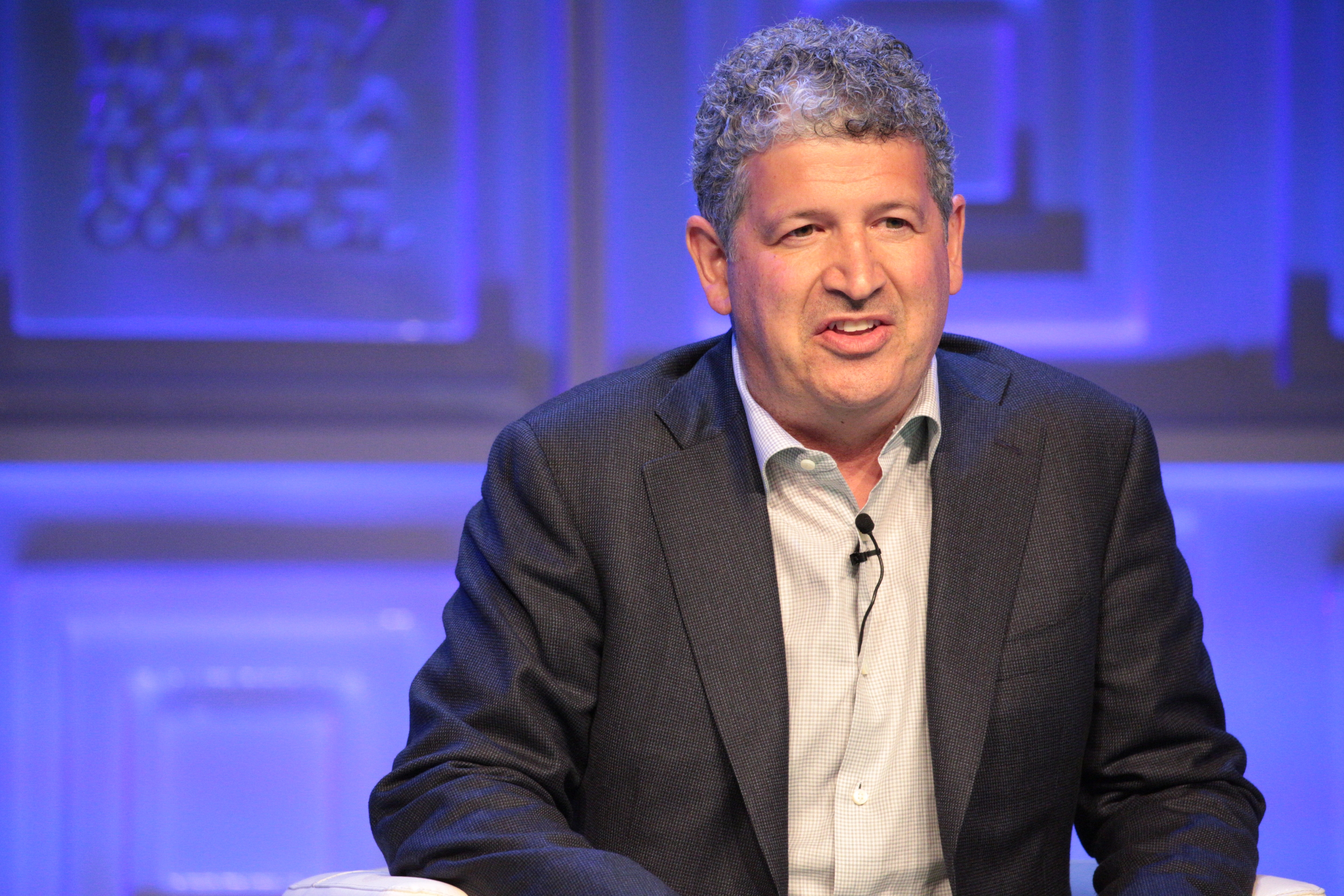 Darren Huston, President & CEO, The Priceline Group at the WTTC Global Summit 2015